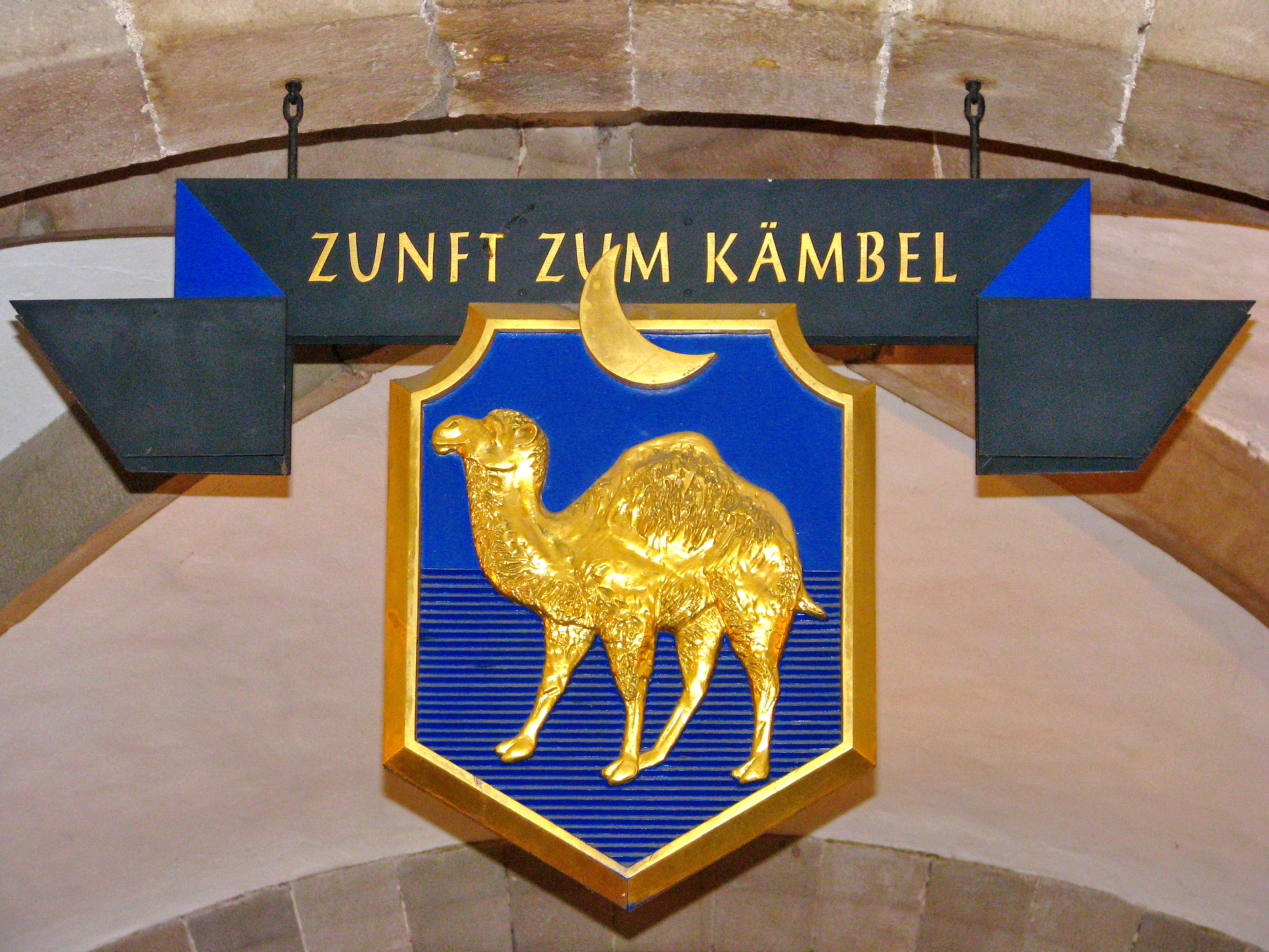 Zürich, Limmatquai : Guild heraldry, entrance Guild house «zur Haue» of the Zunft zum Kämbel. The so called «Haus zur Haue» is also the former home of Salamon Hirzel, Mayor of Zürich (* 1580; † 1652).